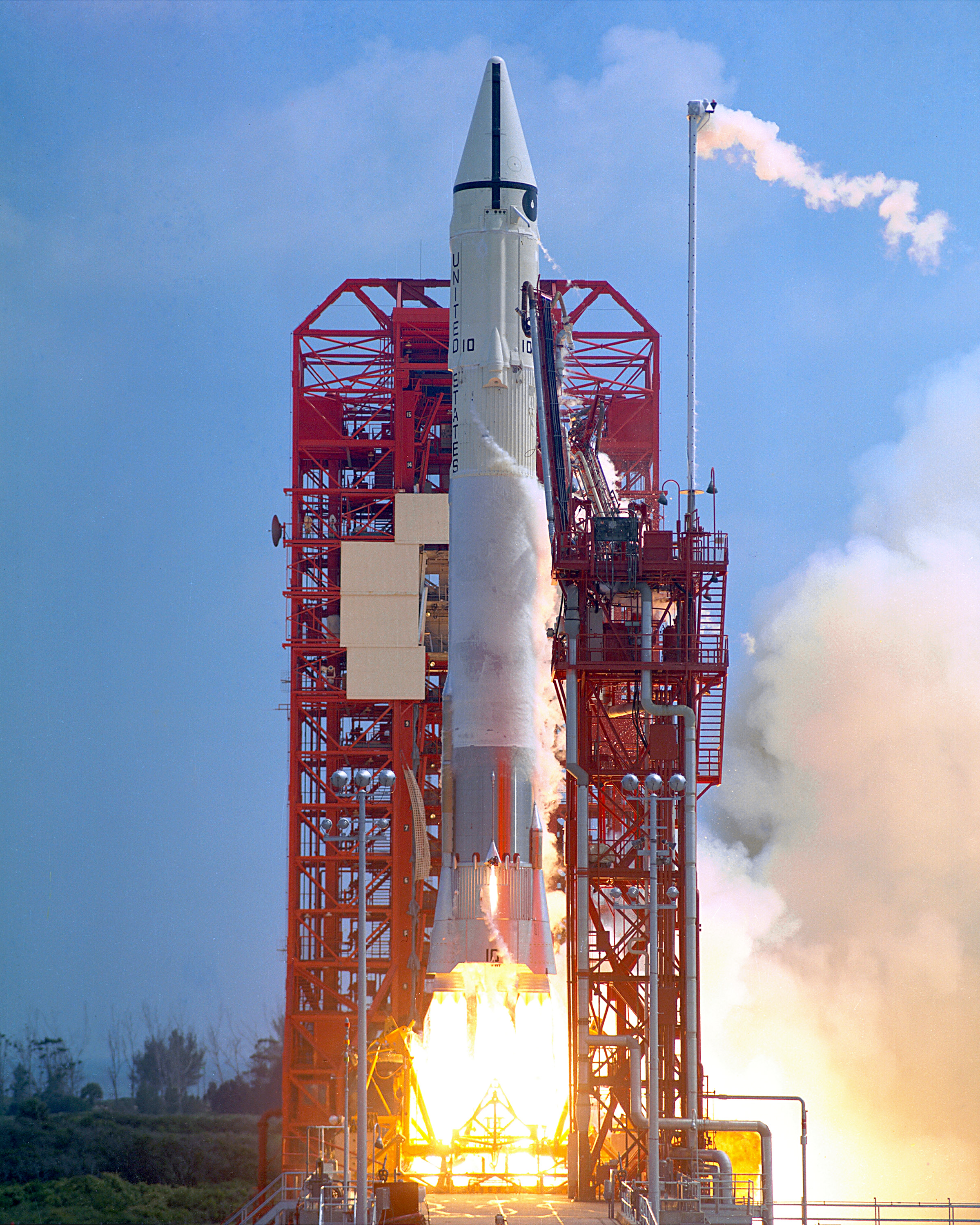 The Atlas-Centaur 10, carrying the Surveyor 1 spacecraft, lifting off from Pad 36A. The Surveyor 1 mission scouted the lunar surface for future Apollo manned lunar landing sites.